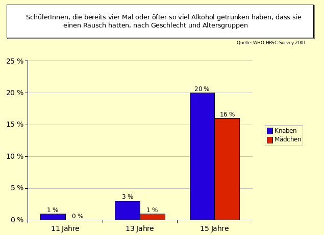 Health behaviour in school aged children; Alcohol consumption of 11/13/15-year-old children in Austria.